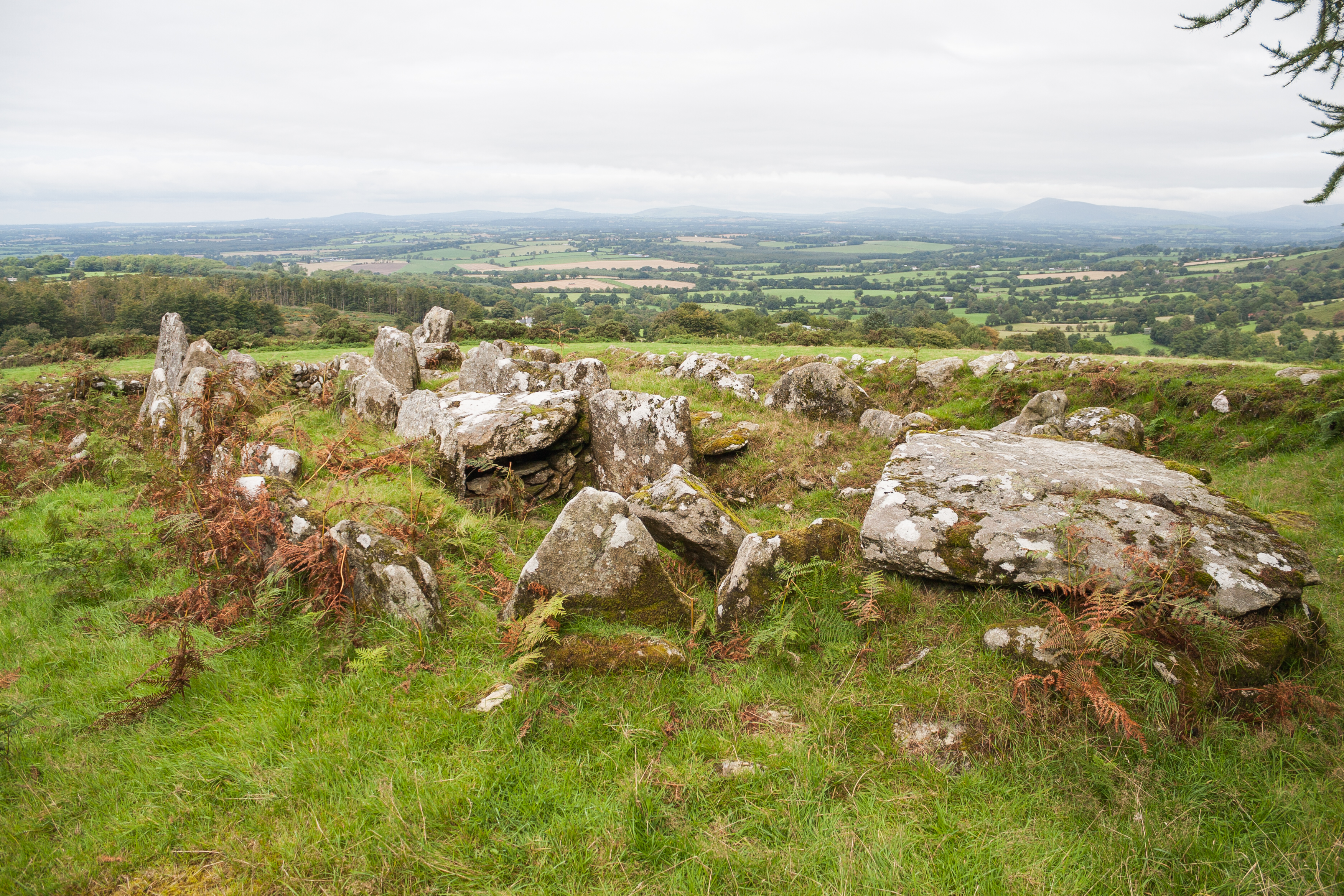 Moylisha wedge tomb, looking north.